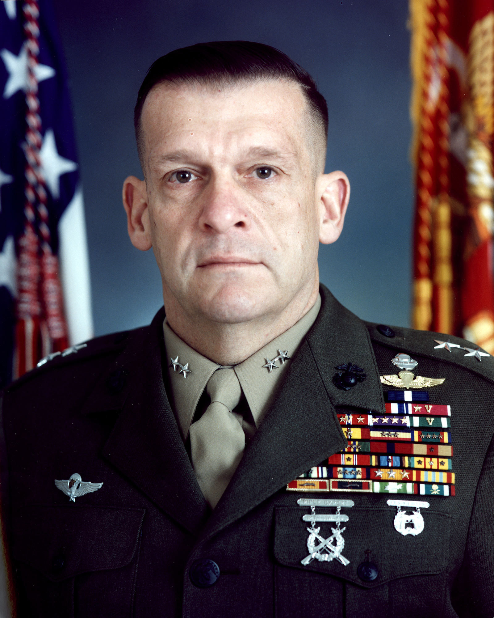 MajGen Lawrence H. Livingston, USMC; Navy Cross